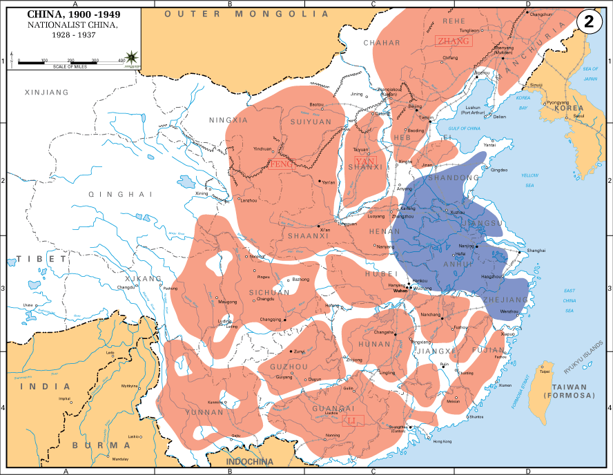 Chinese Civil War